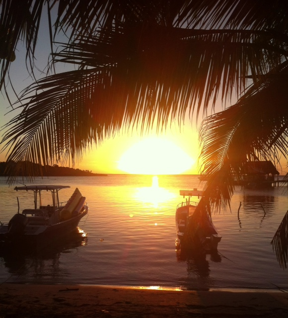 Roatan